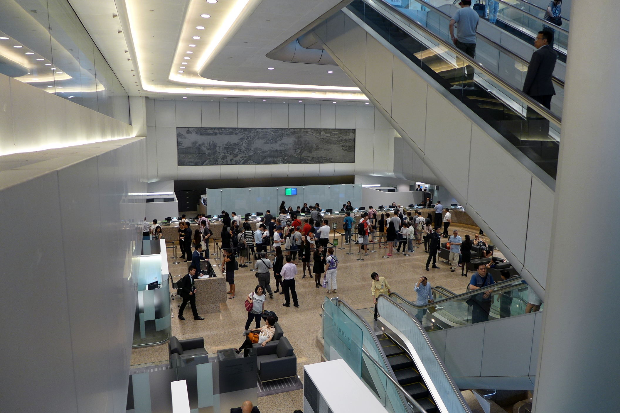 Hang Seng Bank Head Office Lobby